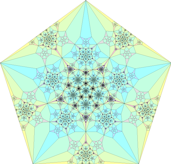 A pentagonal fractal-like image obtained from a finite subdivision rule for an alternating link.